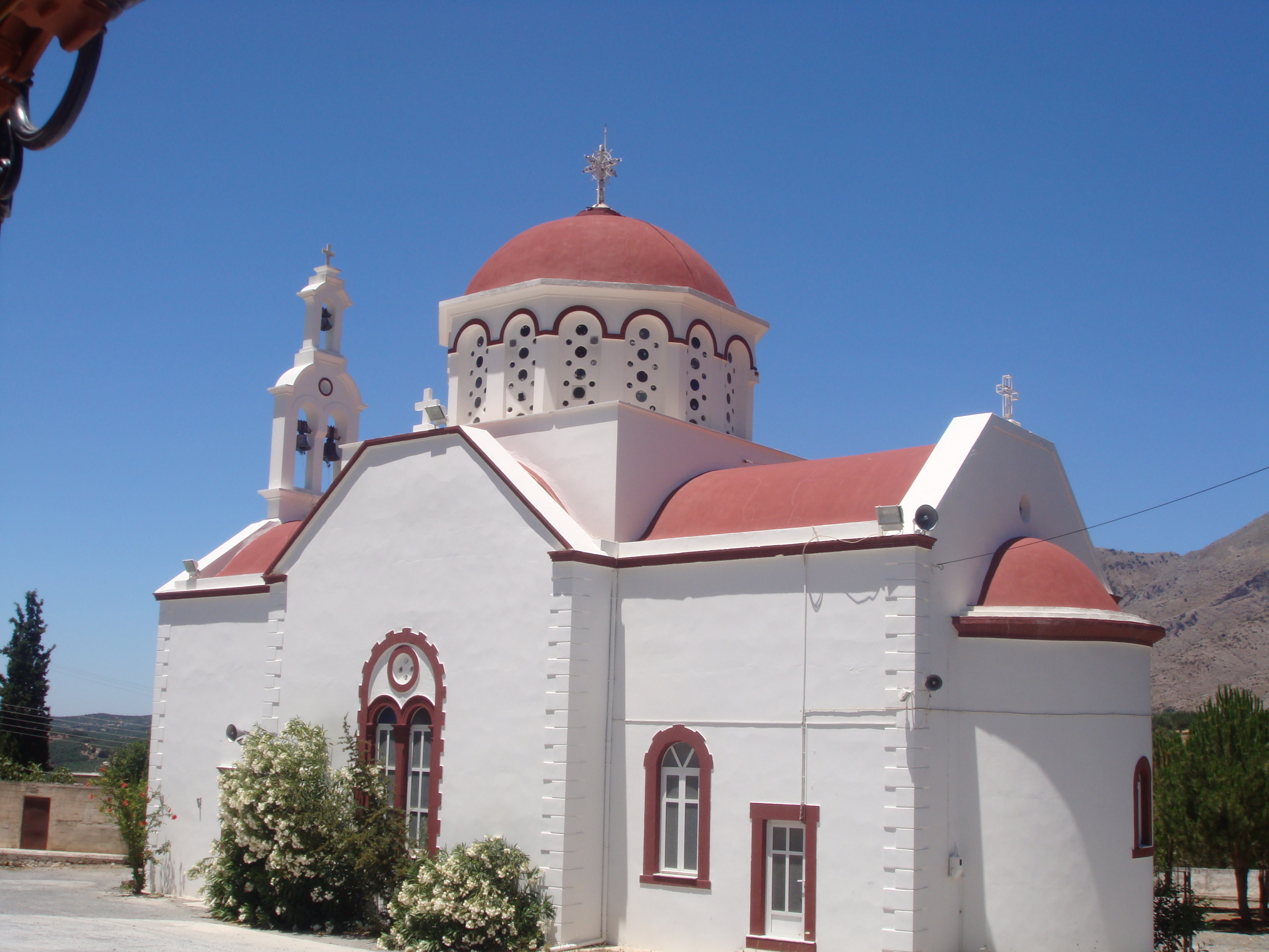 Church of Agios Panteleimon in Milliaradon, Iraklion Prefecture.